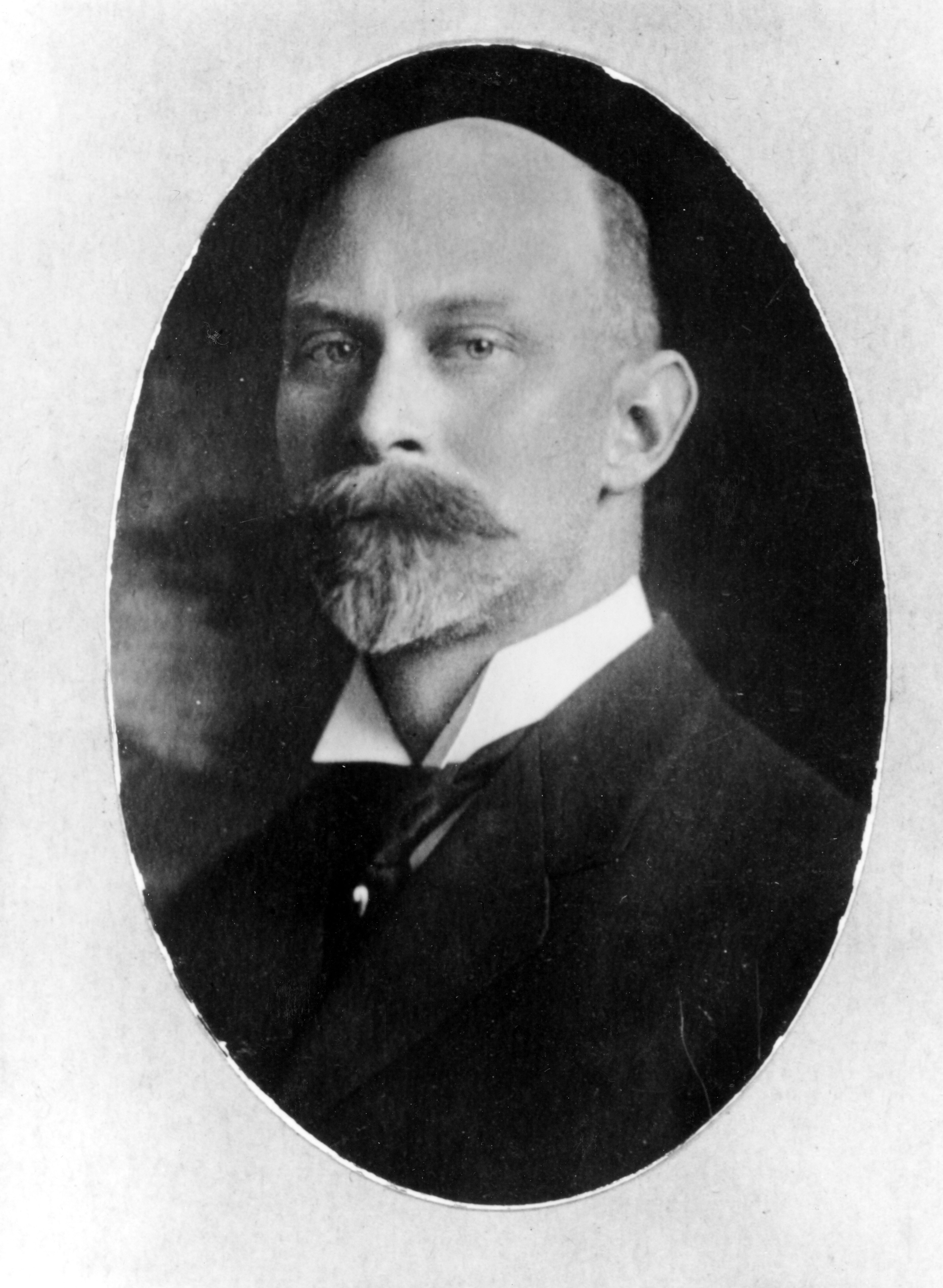 Thomas Wayland Vaughan, near the time of his appointment to the U.S. Geological Survey in the 1890's. In 1924, he was appointed director of the University of California's Scripps Biological Research Institution, which was later renamed the Scripps Institution of Oceanography.